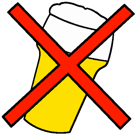 No alcohol logo No beer logo